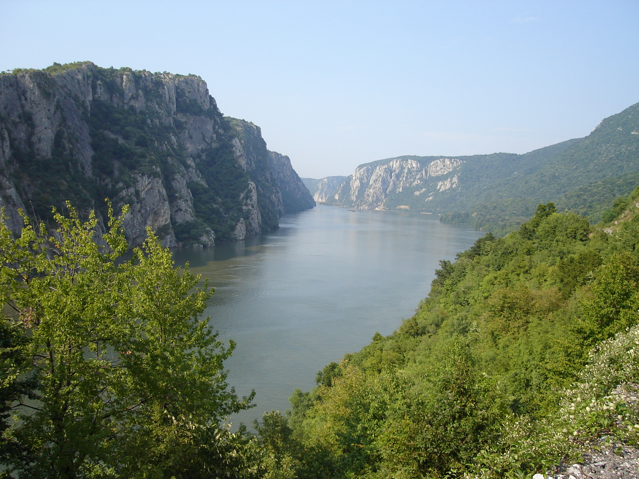 Danube River near Iron Gate.